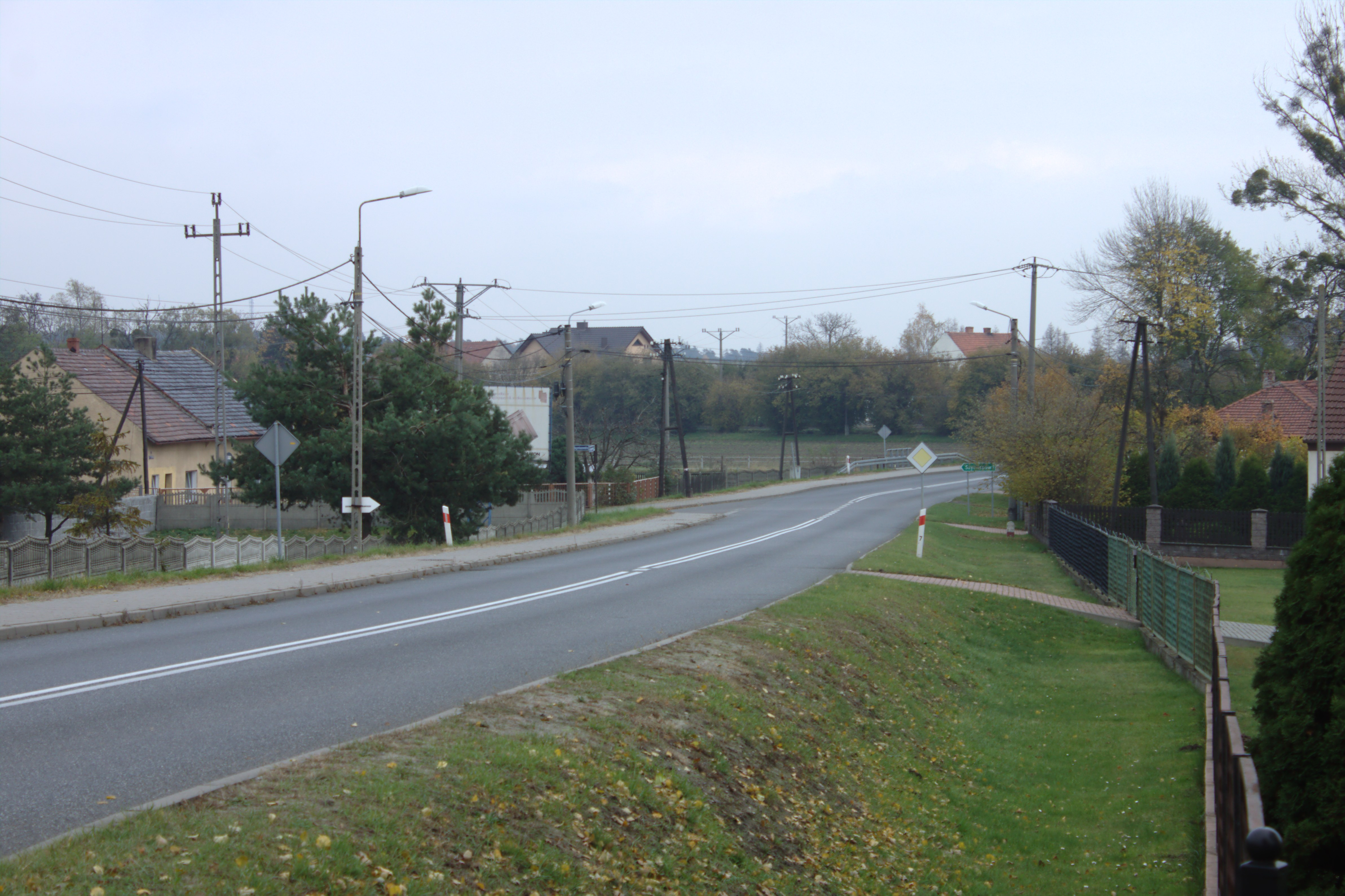 Main road in Rożniątów, Opole Voivodeship, Poland